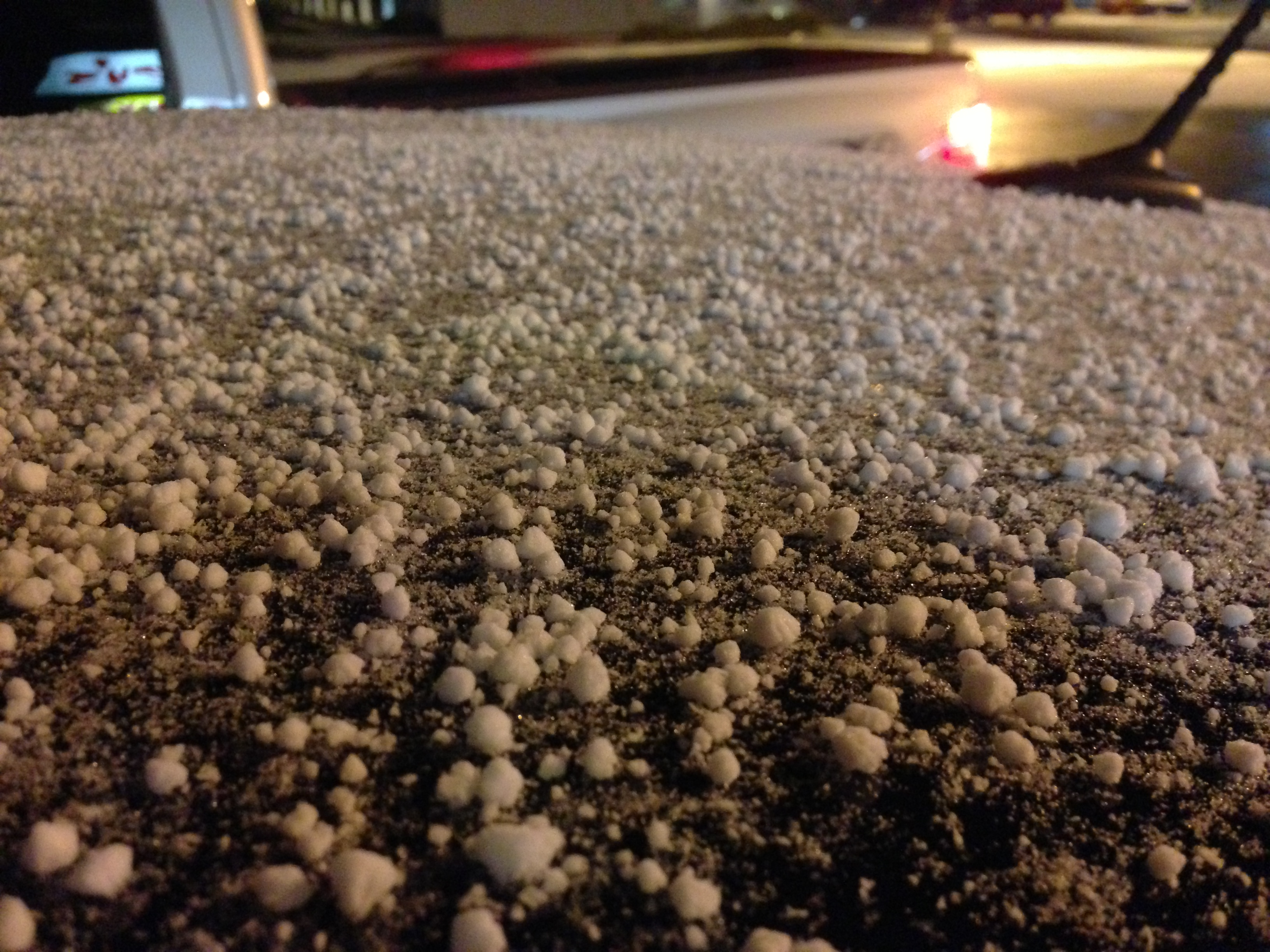 Graupel (snow pellets) in Elko, Nevada